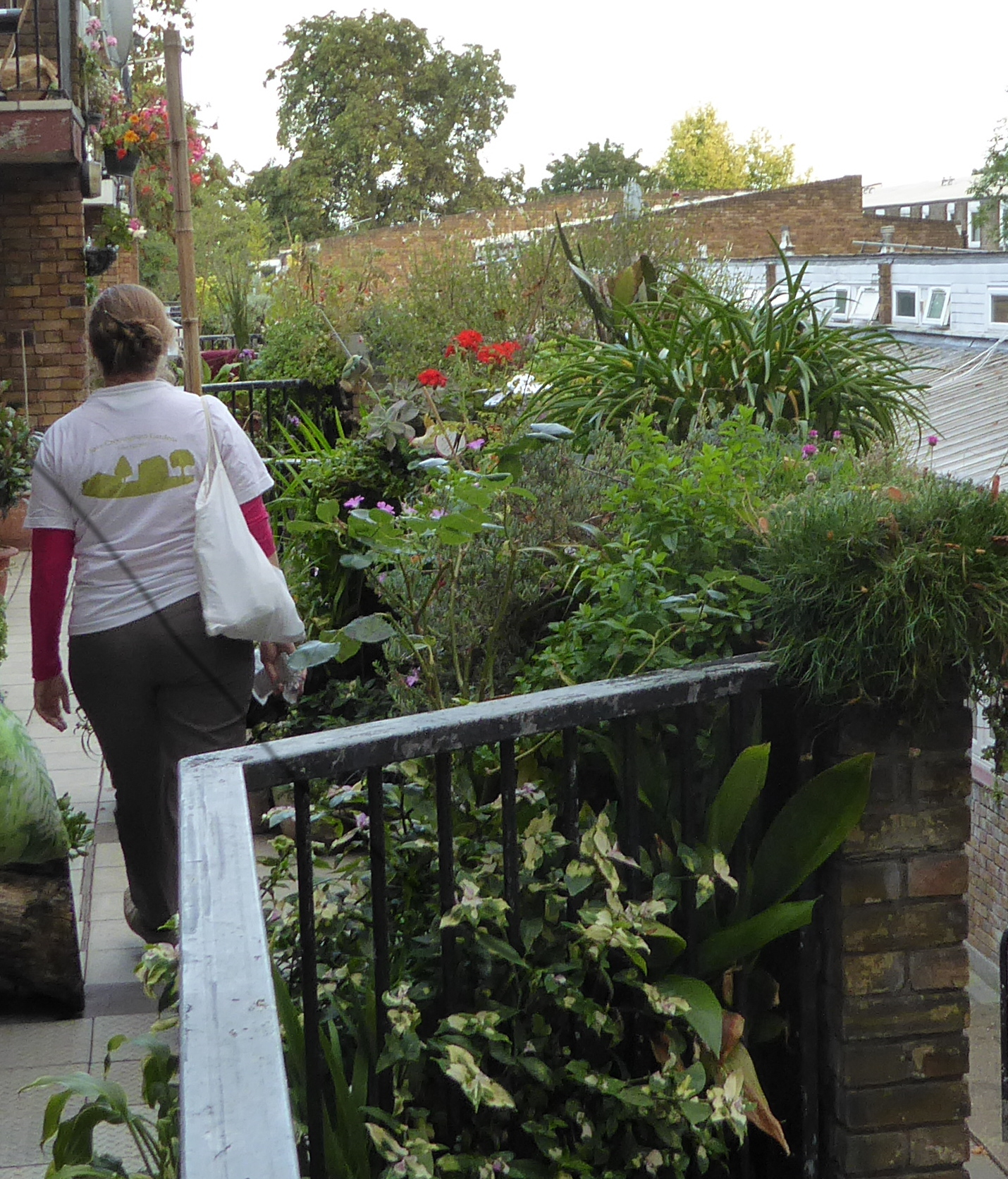 Picture of Frontage on railings at Cressingham Gardens